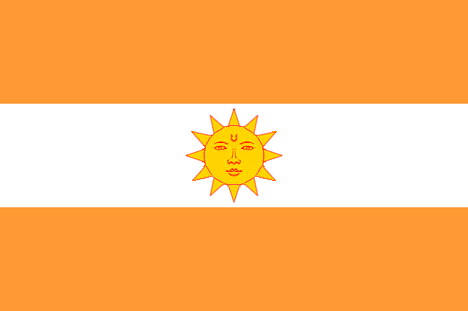 Jasdan state flag